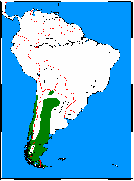 Range map for South American Gray Fox (Pseudalopex griseus), made by me with help of Map depending on the range map at IUCN red list.